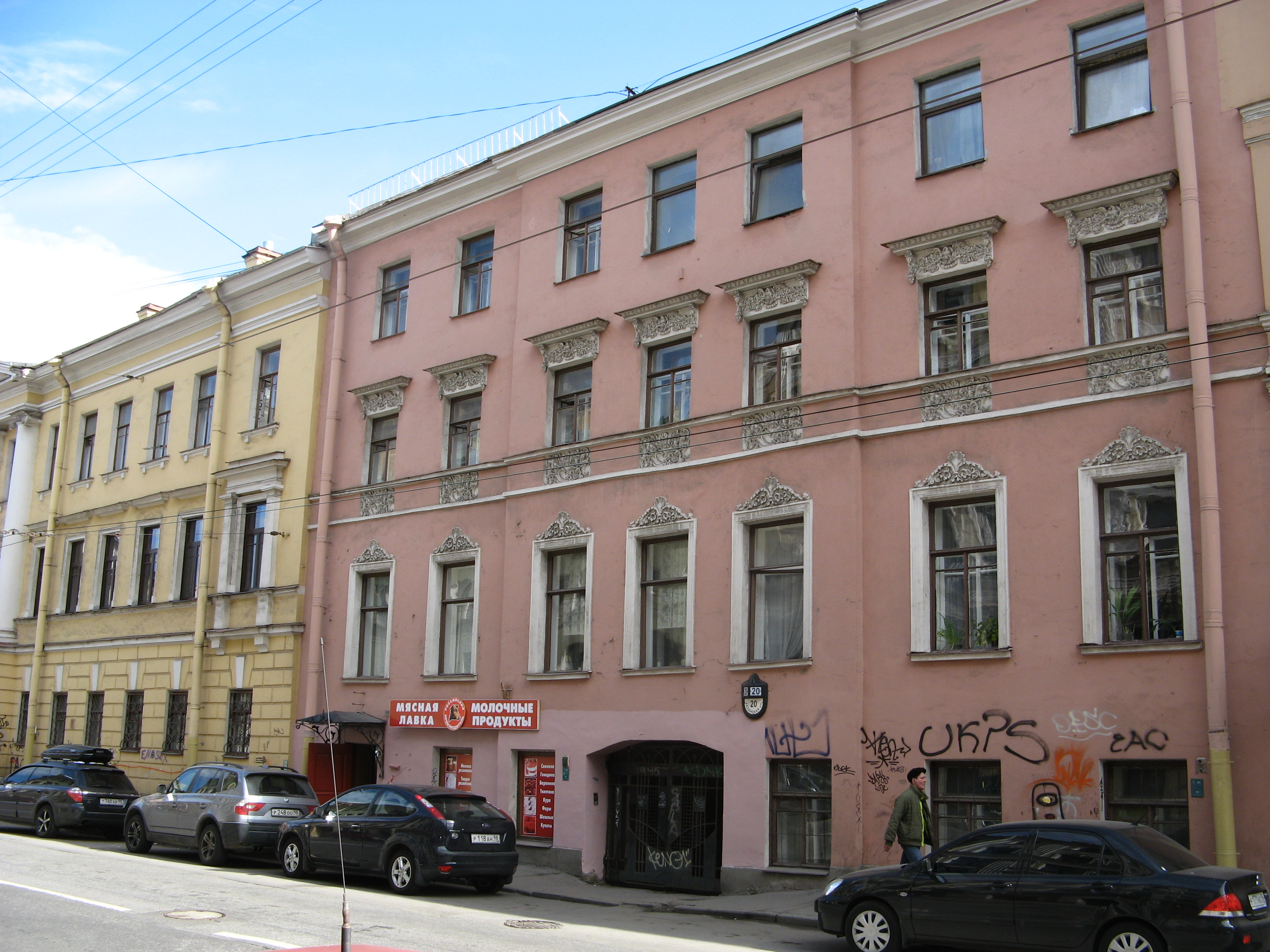 Kazanskaj street, 20 (Saint-Petersburg)